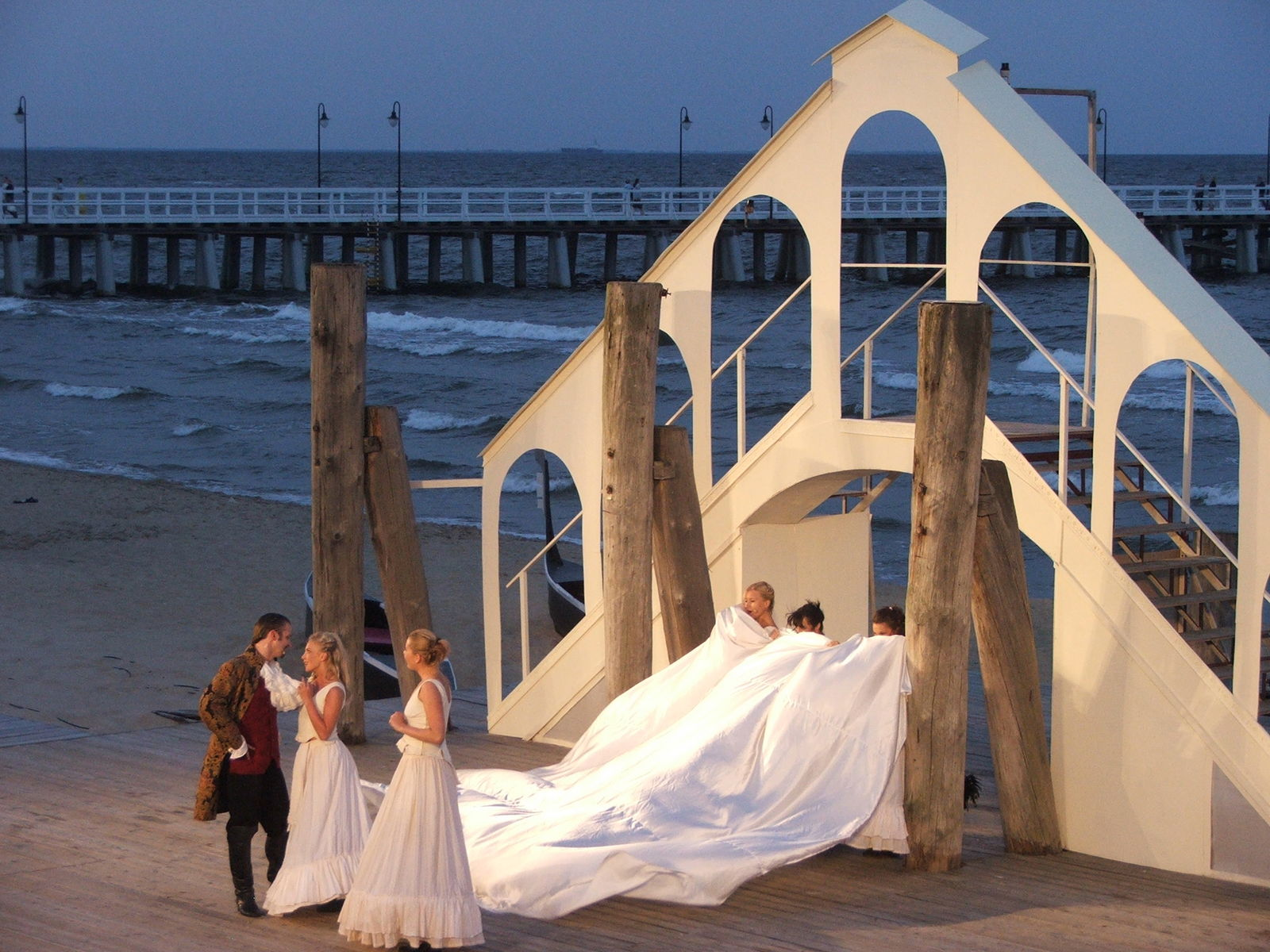 Summer scene of the City Theatre in Gdynia, Poland. "Casanova" performance.